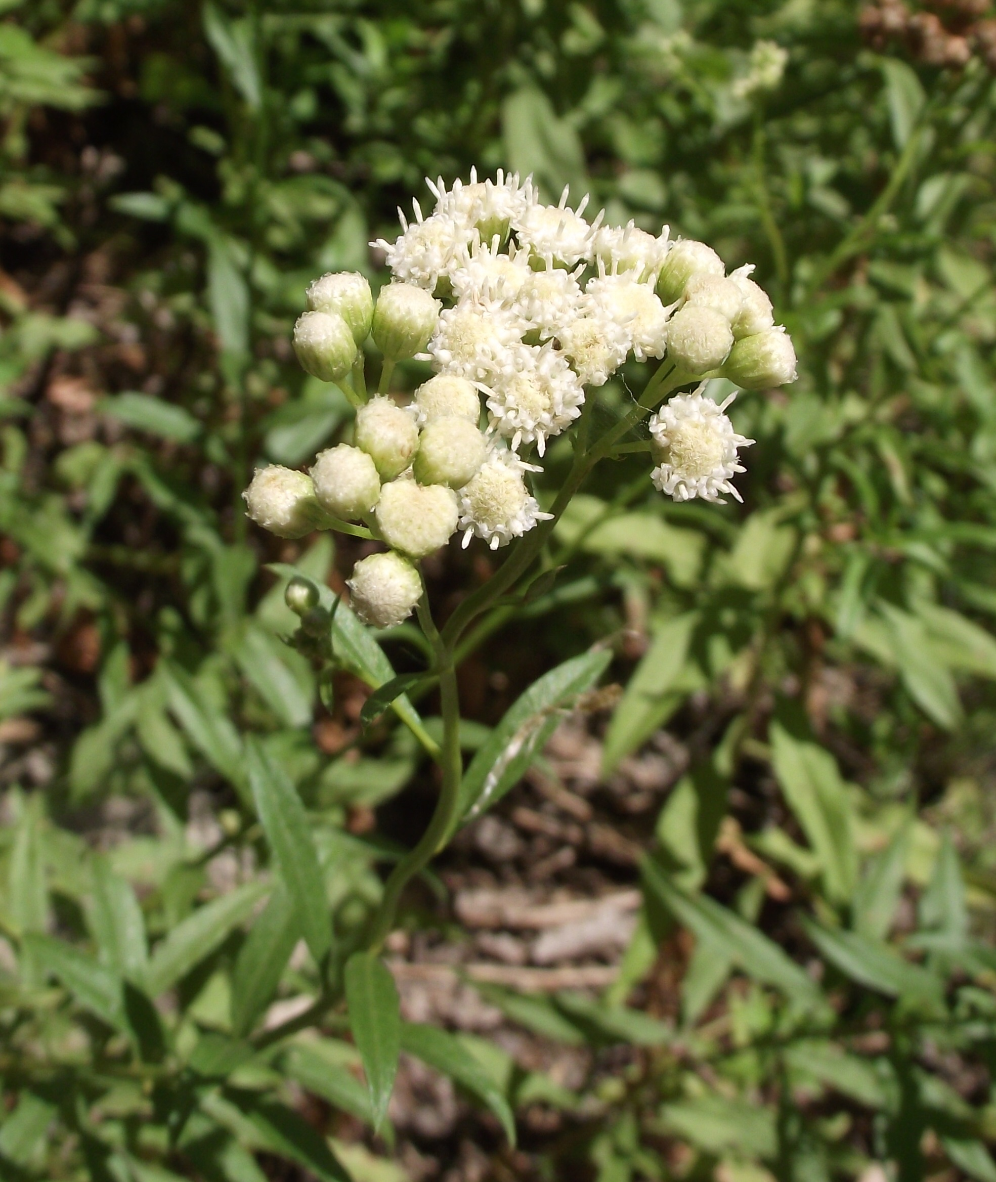 Baccharis douglasii at the San Diego Zoo Safari Park, Escondido, CA, USA